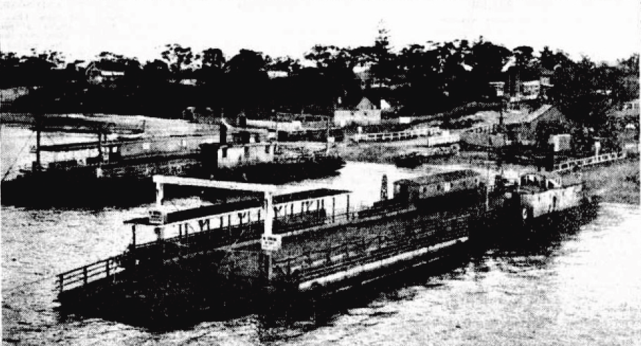 Photo of Tom Uglys Punts after opening of Tom Uglys Bridge to traffic.